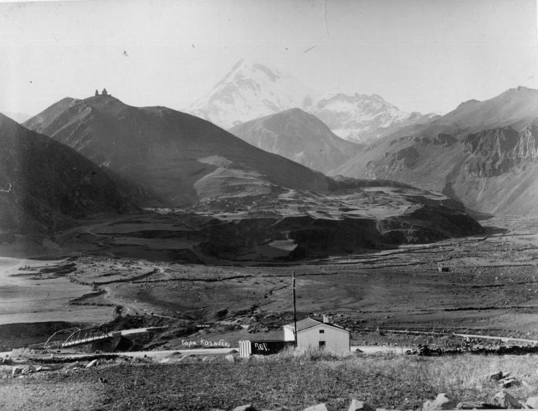 Mount Kazbek in Georgia. 1890s.